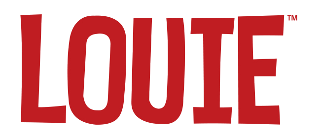 Logo of the TV series Louie.